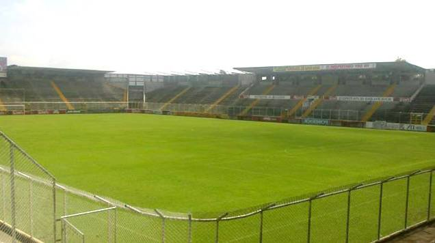 The stady Israel Barrios, Coatepeque